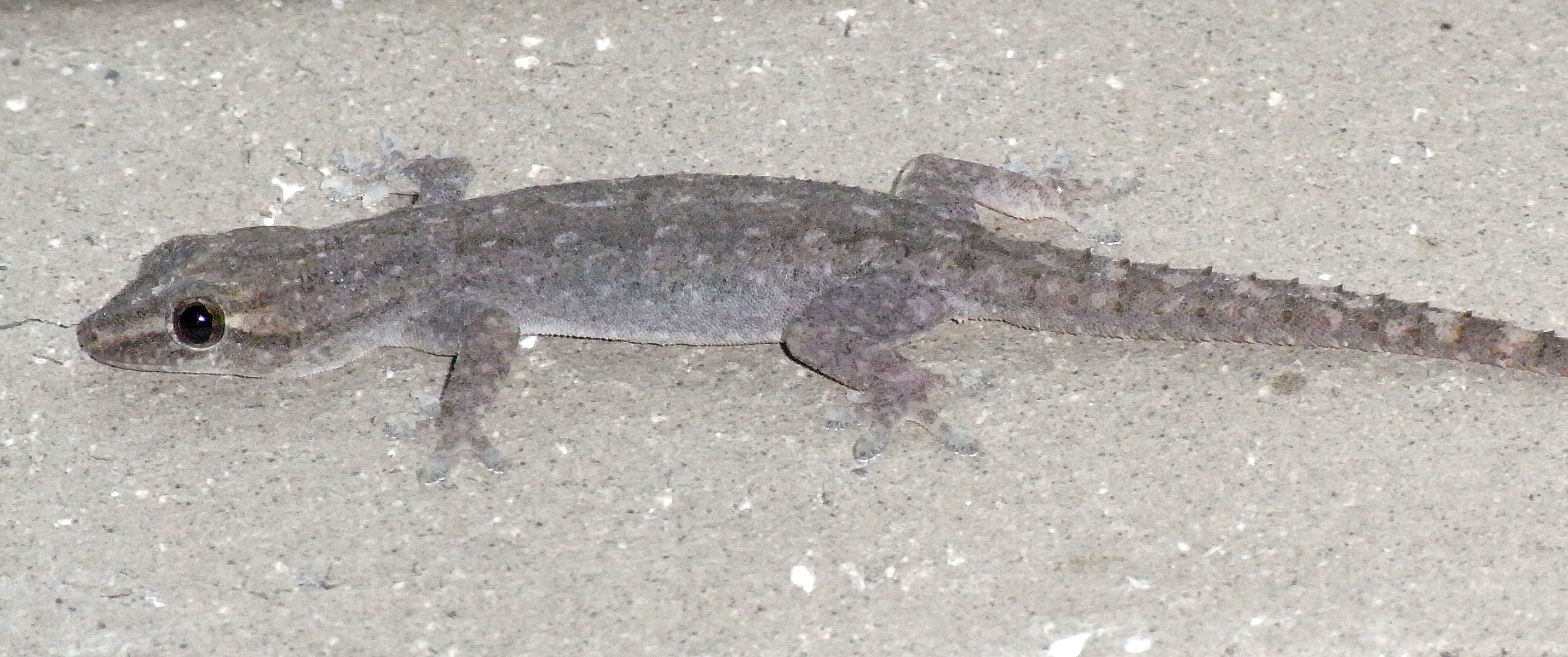 Eastern Dtella (Gehyra dubia) perching on a wall in Canungra, Queensland, Australia.